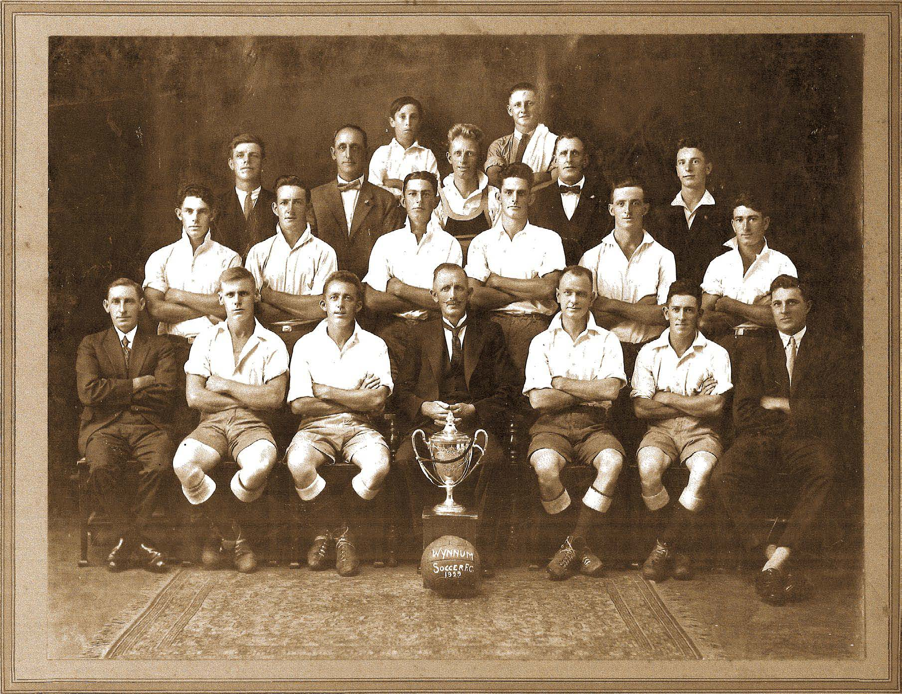 Wynnum Soccer Football Club players, posing with a trophy.